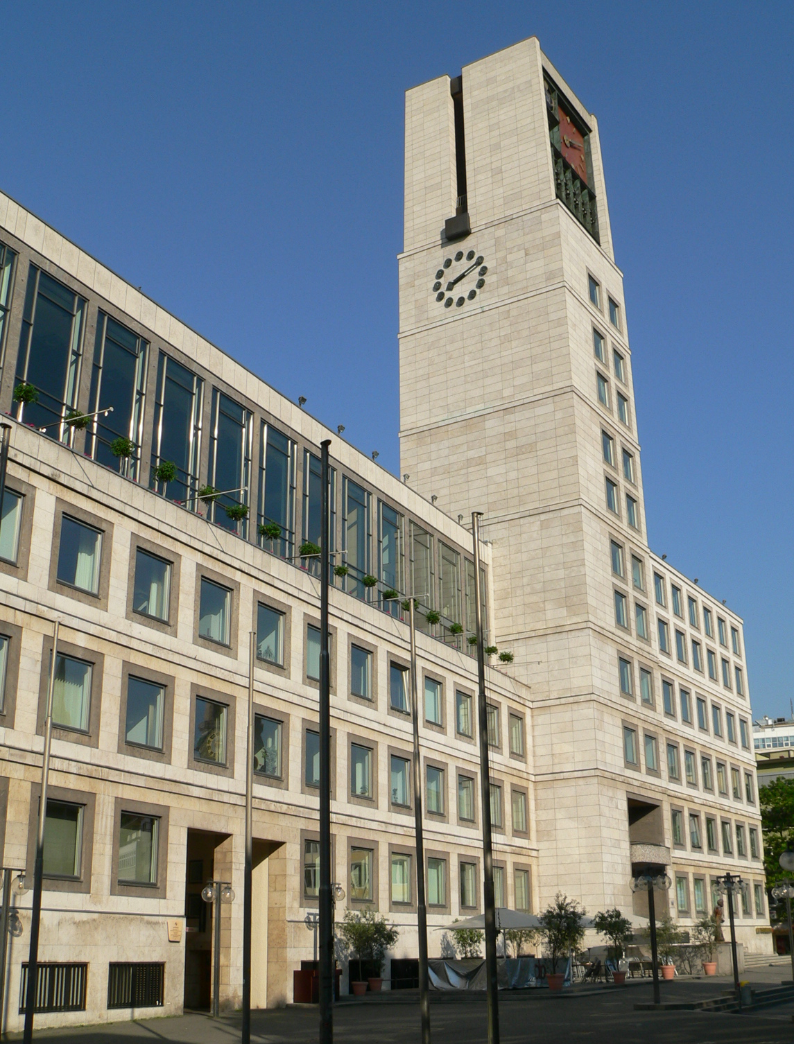 City hall in Stuttgart, Germany